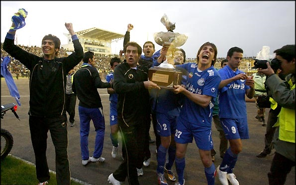 Payam Mashhad 0 - 1 Esteghlal